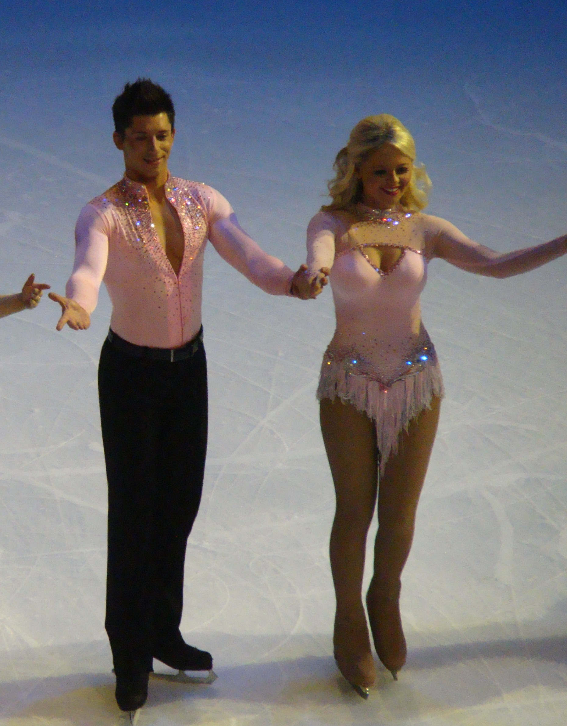 Fred Palascak and Emily Atack on the 2010 Dancing on Ice tour in Manchester.